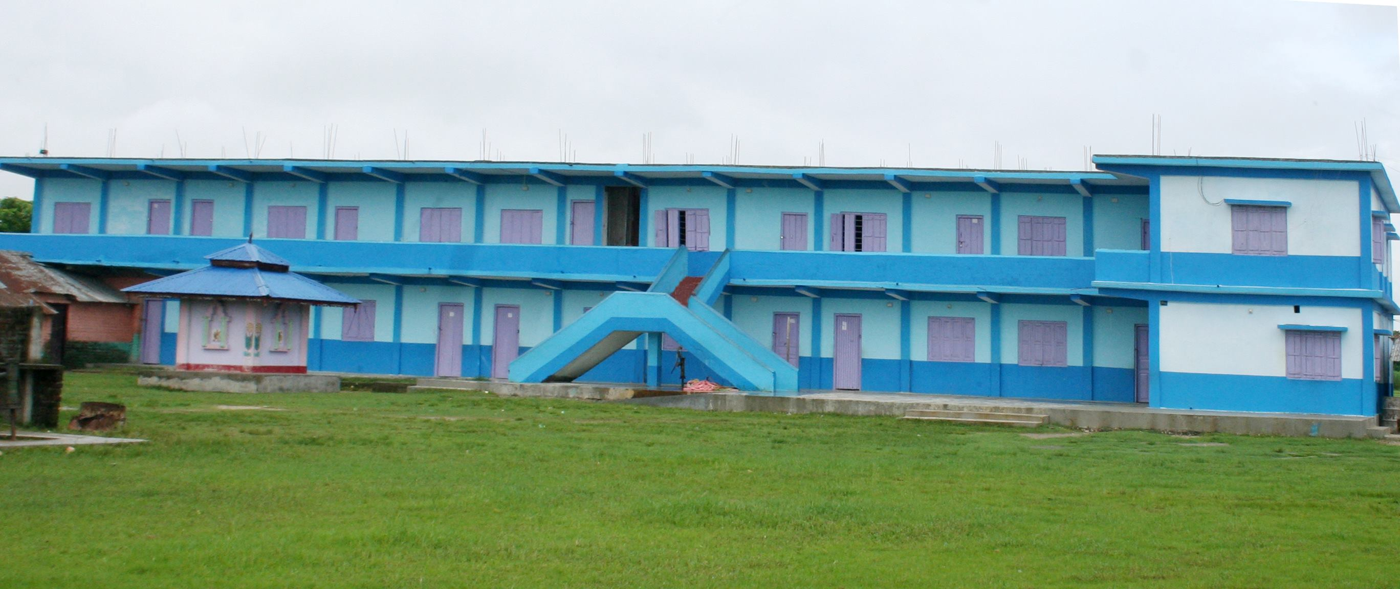 Photo's of Gyanjyoti Higher Secondary School. Rajgadh-6 Jhapa, Nepal